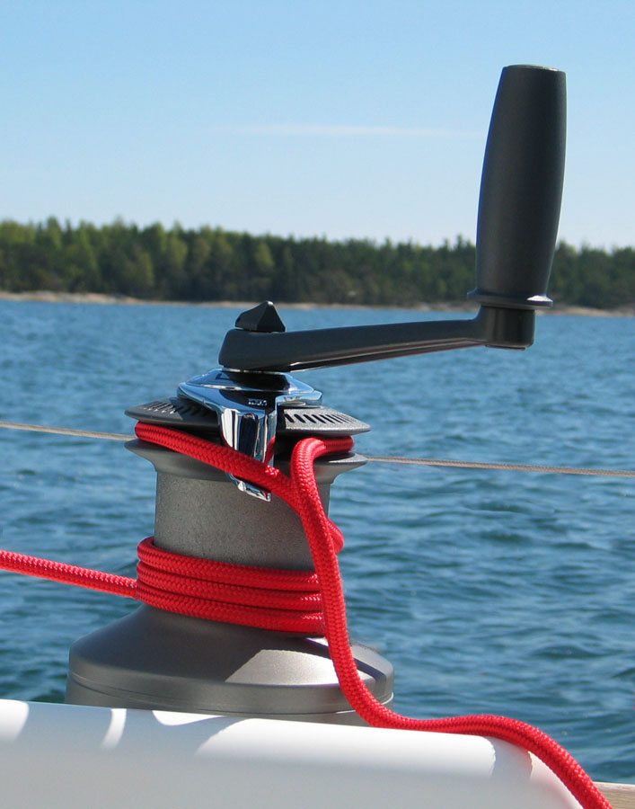 Self-tailing Winch